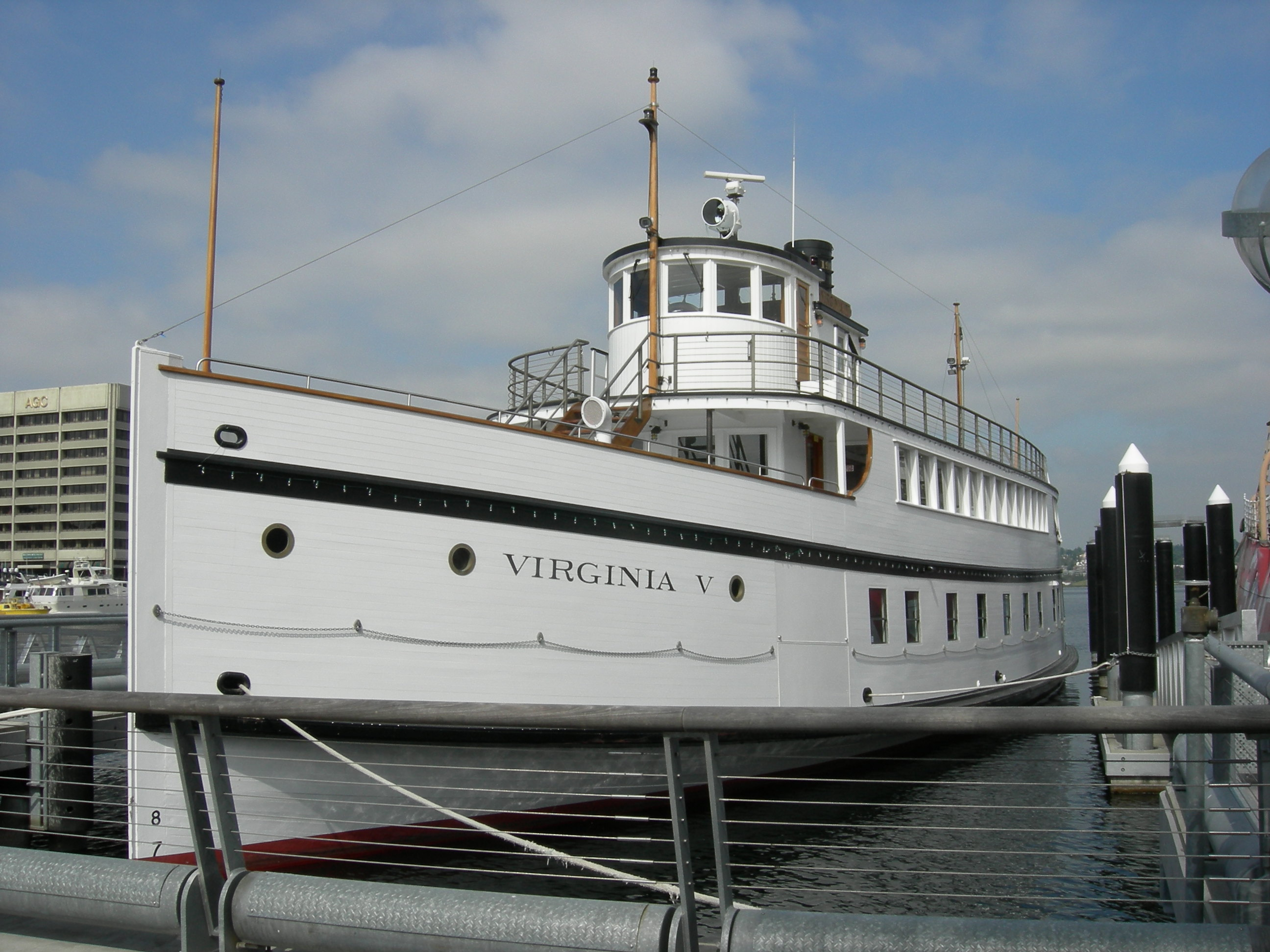 The steamer Virginia V, last of Puget Sound's Mosquito Fleet, now owned by the non-profit Steamer Virginia V Foundation, with a home port at the Historic Ships Wharf, South Lake Union Park, Seattle, Washington, USA. Listed on the National Register of Historic Places (NRHP), ID #73001875. The boat also has city landmark status.